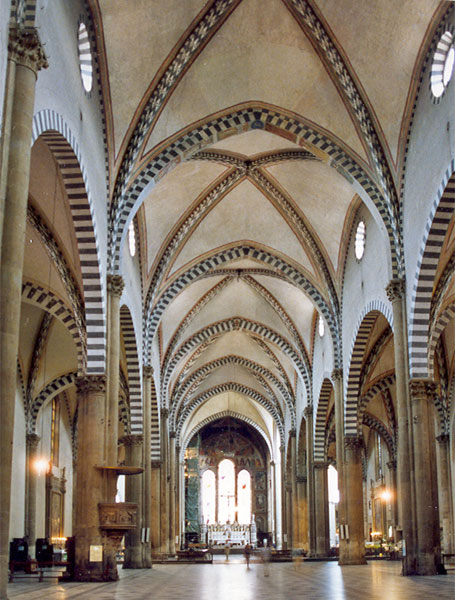 Santa Maria Novella, interior. Florence